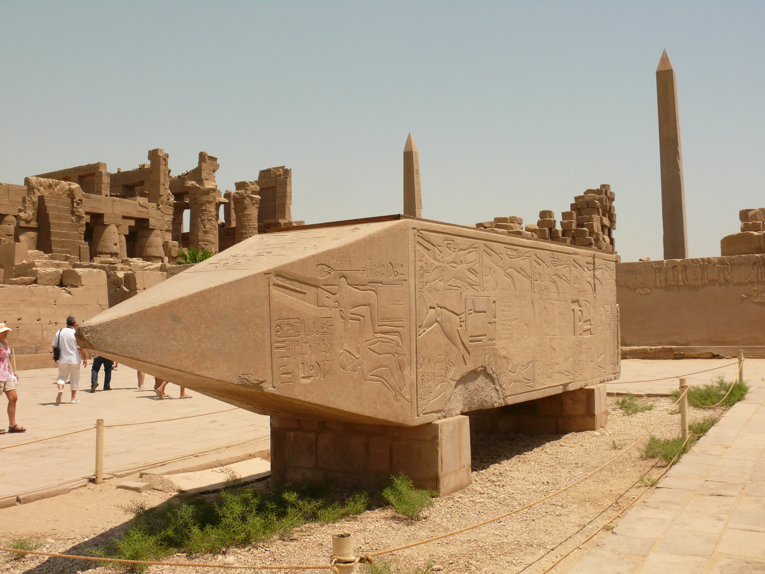 Tip of Hatshepsut's fallen obelisk, Karnak temple, Egypt